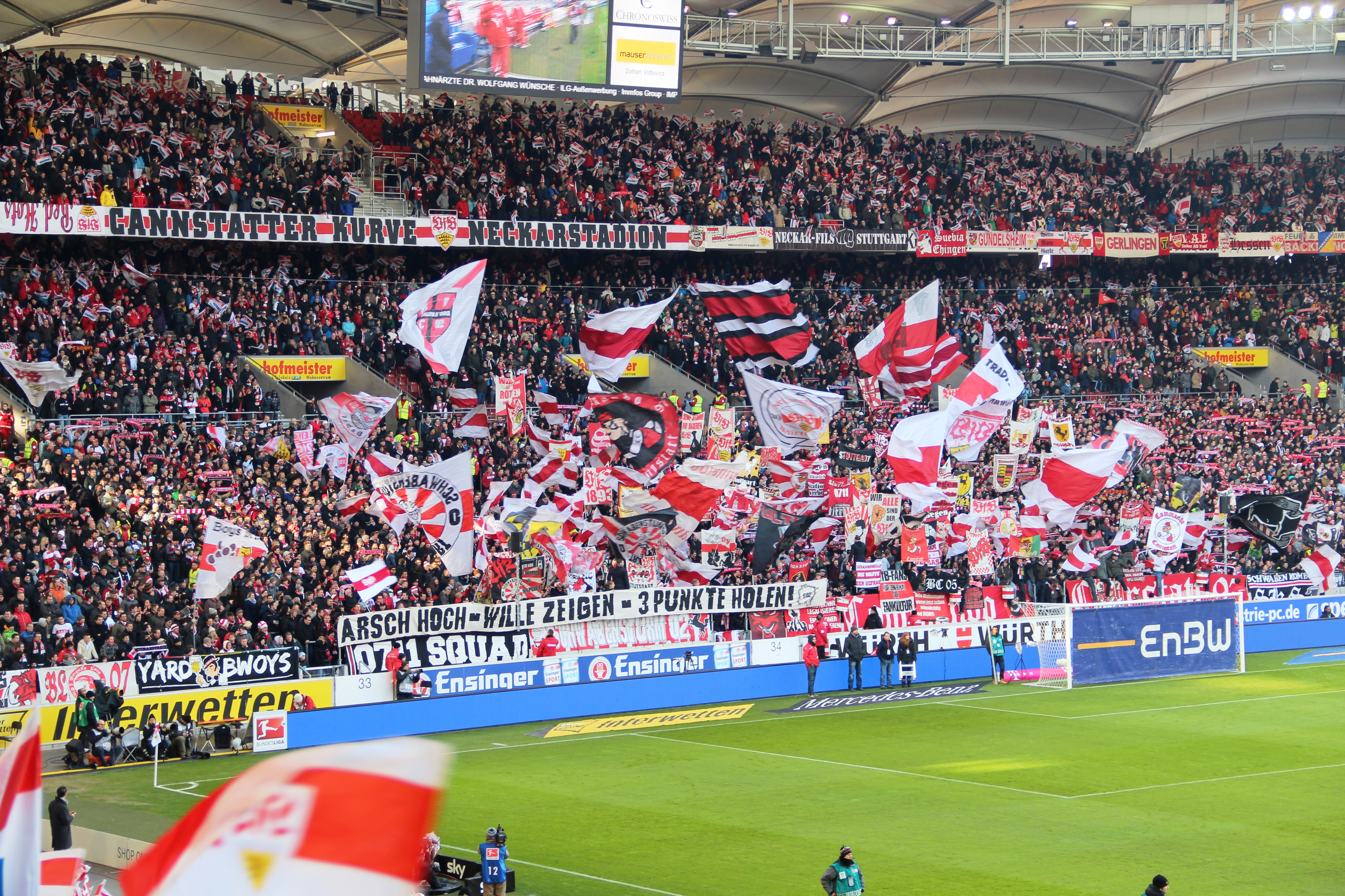 Cannstatter Kurve, Mercedes-Benz Arena during Bundesliga match of VfB Stuttgart against Werder Bremen on 9 February 2013